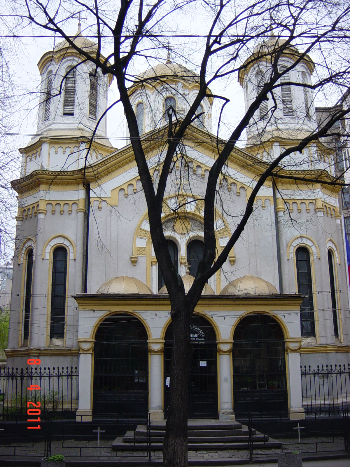 София April 2011 София April 2011 The Romanian Church of the Holy Trinity